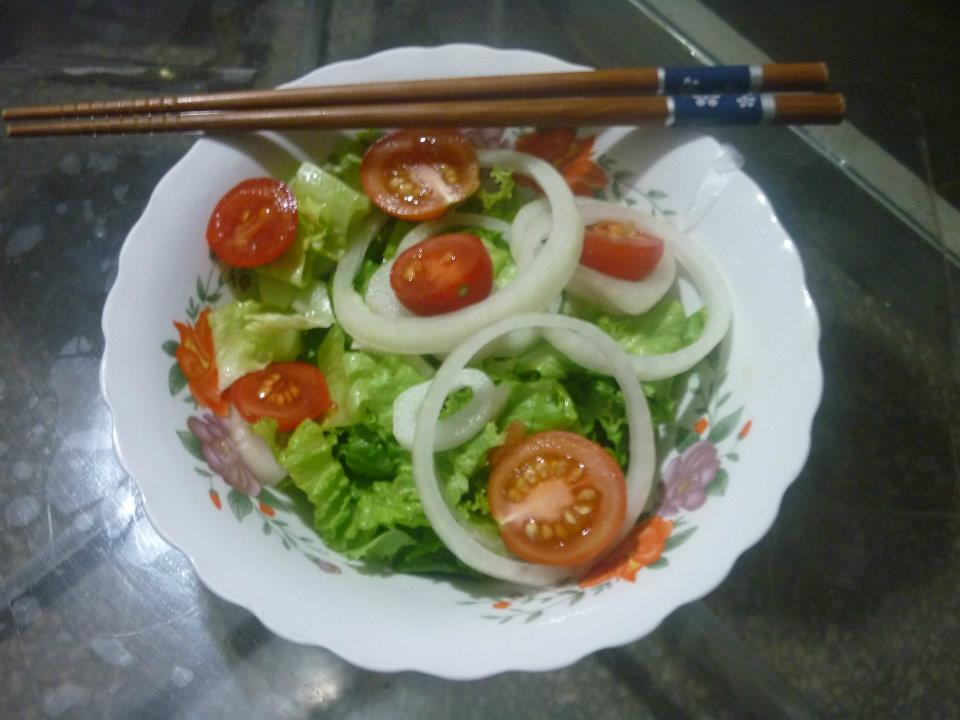 salad